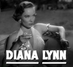 Cropped screenshot of Diana Lynn from the film Plunder of the Sun